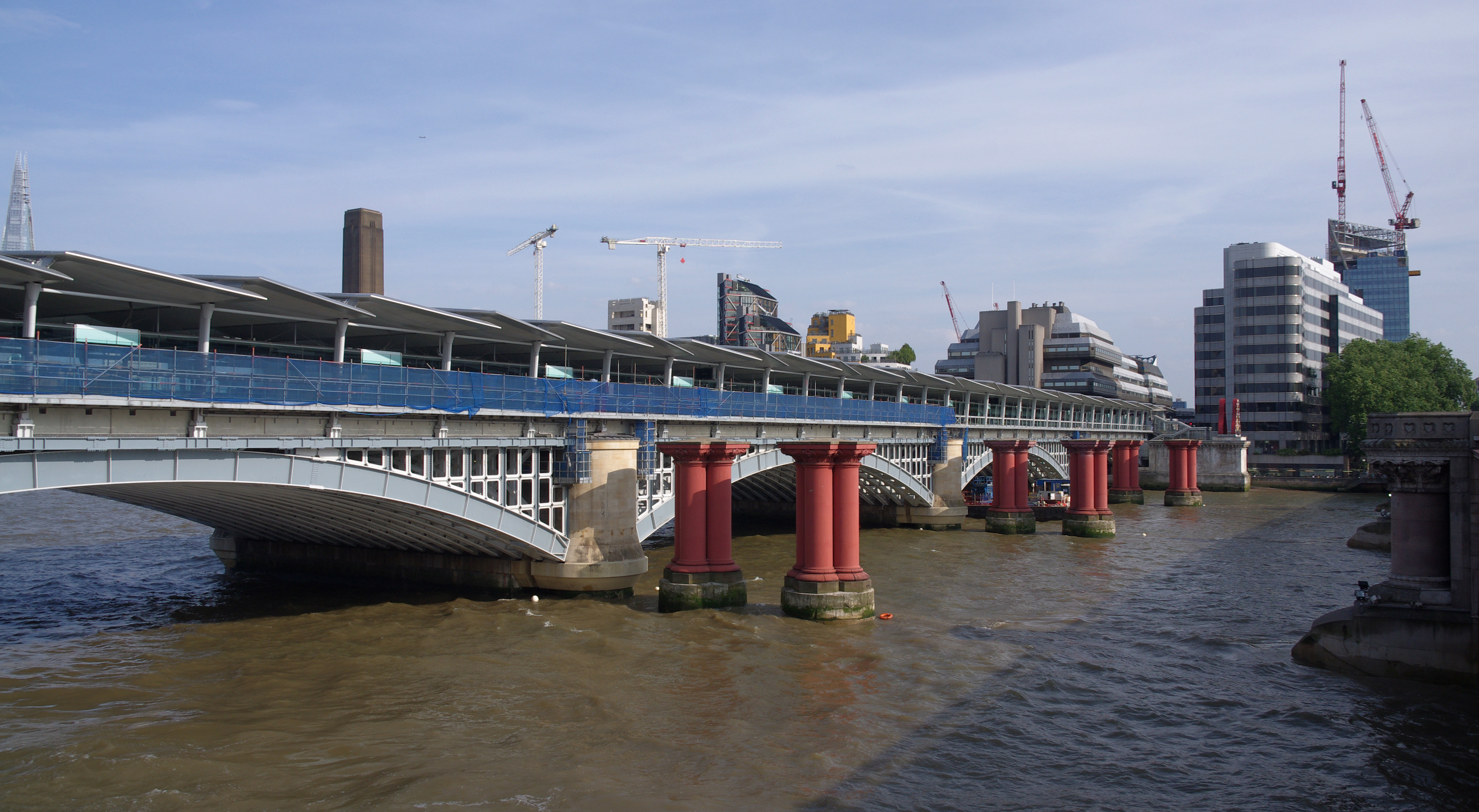 Blackfriars station, seen from Blackfriars Bridge.